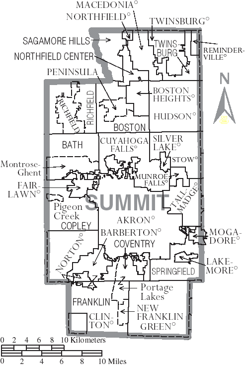 Map of Summit County, Ohio, United States with township and municipal boundaries